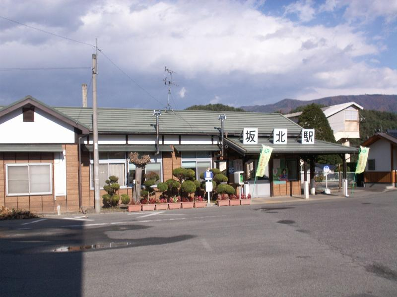 Sakakita Station